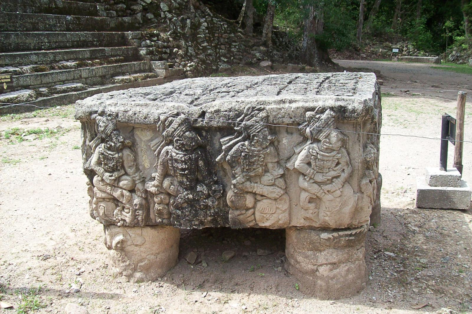 World Heritage Site of Copan. Altar Q